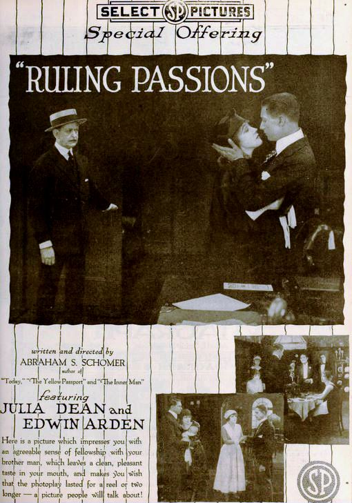 Ad for the American film Ruling Passions (1918) with Julia Dean and Edwin Arden, on page 145 of the January 11, 1919 Moving Picture World.